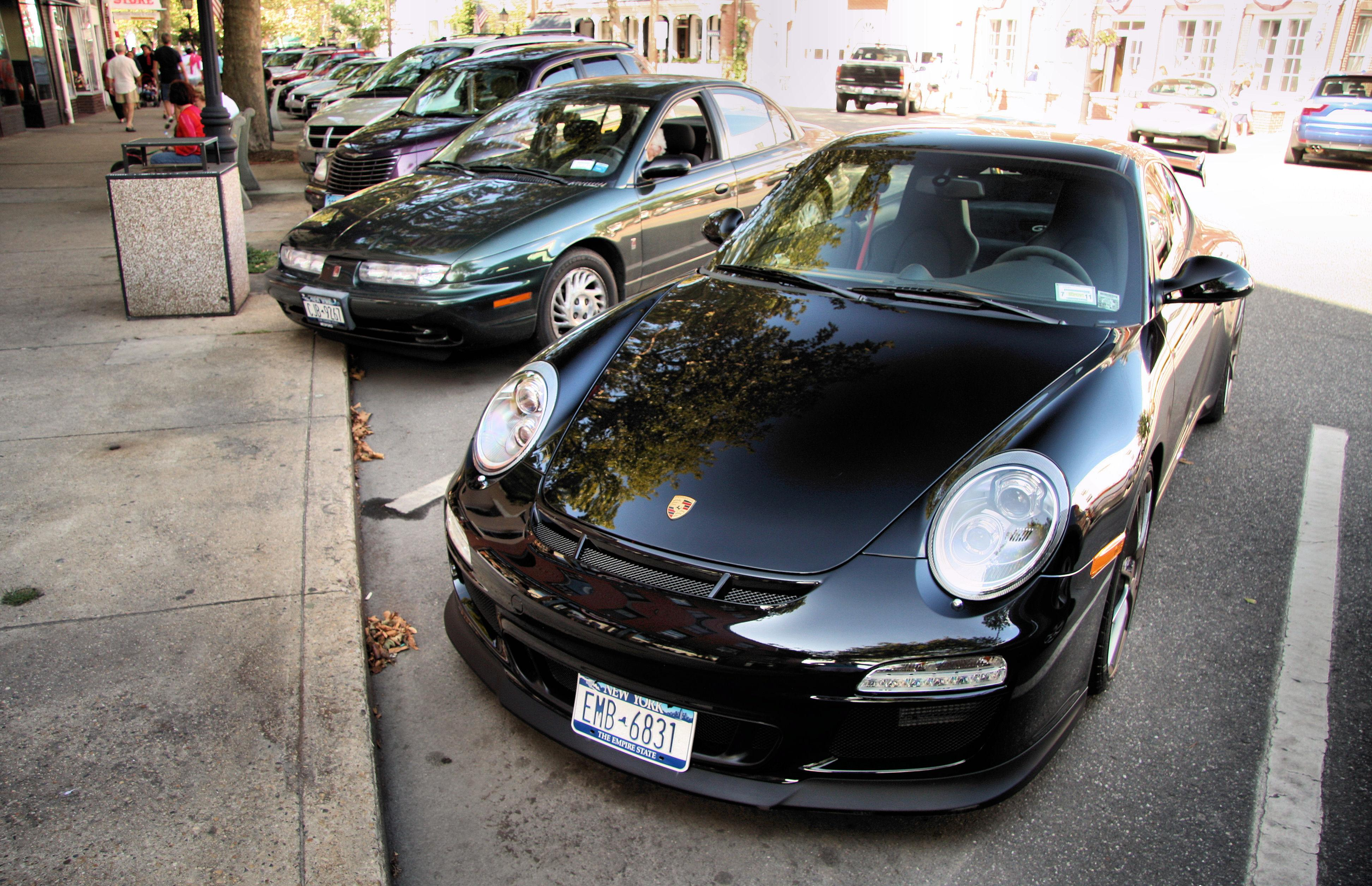 Black 2009 Porsche 911 GT3 (997) in Sag Harbor, New York